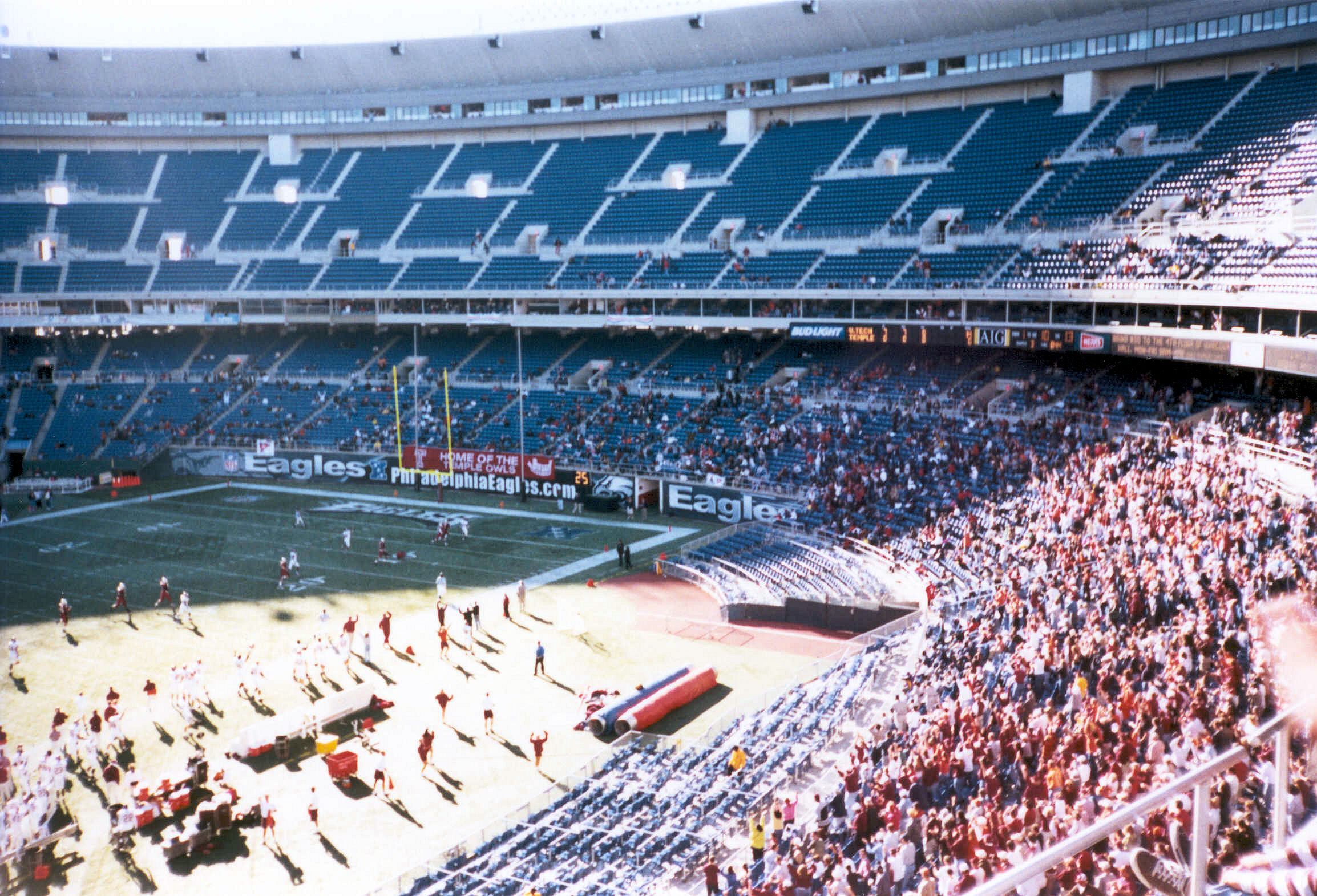 The Hokies take on Temple at Veterans Stadium (en) on 11-10-2001. This shot was taken during a Tech non-offensive TD (I think it was a punt return by D-Hall.) The Hokies prevailed 35-0.